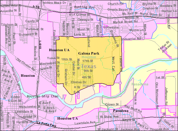 Map of Galena Park, Texas